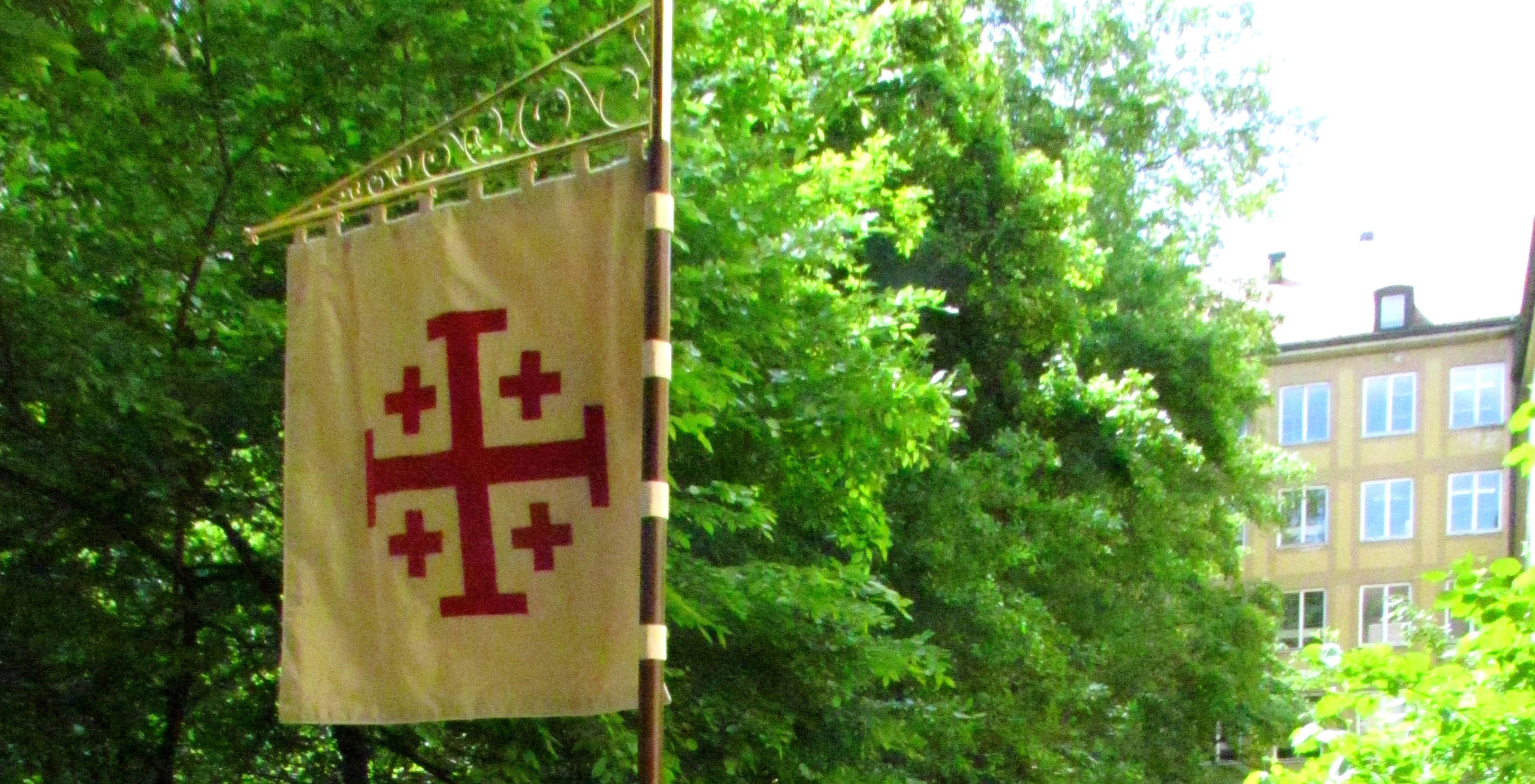 Jerusalem cross (Order of the Holy Sepulchre)